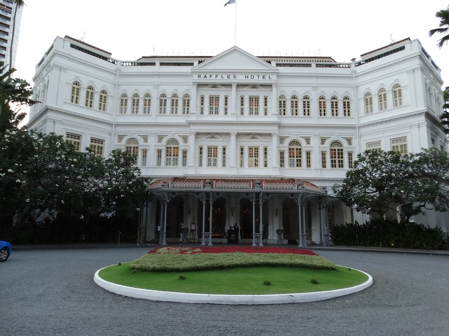 Hotel Raffles in Singapore